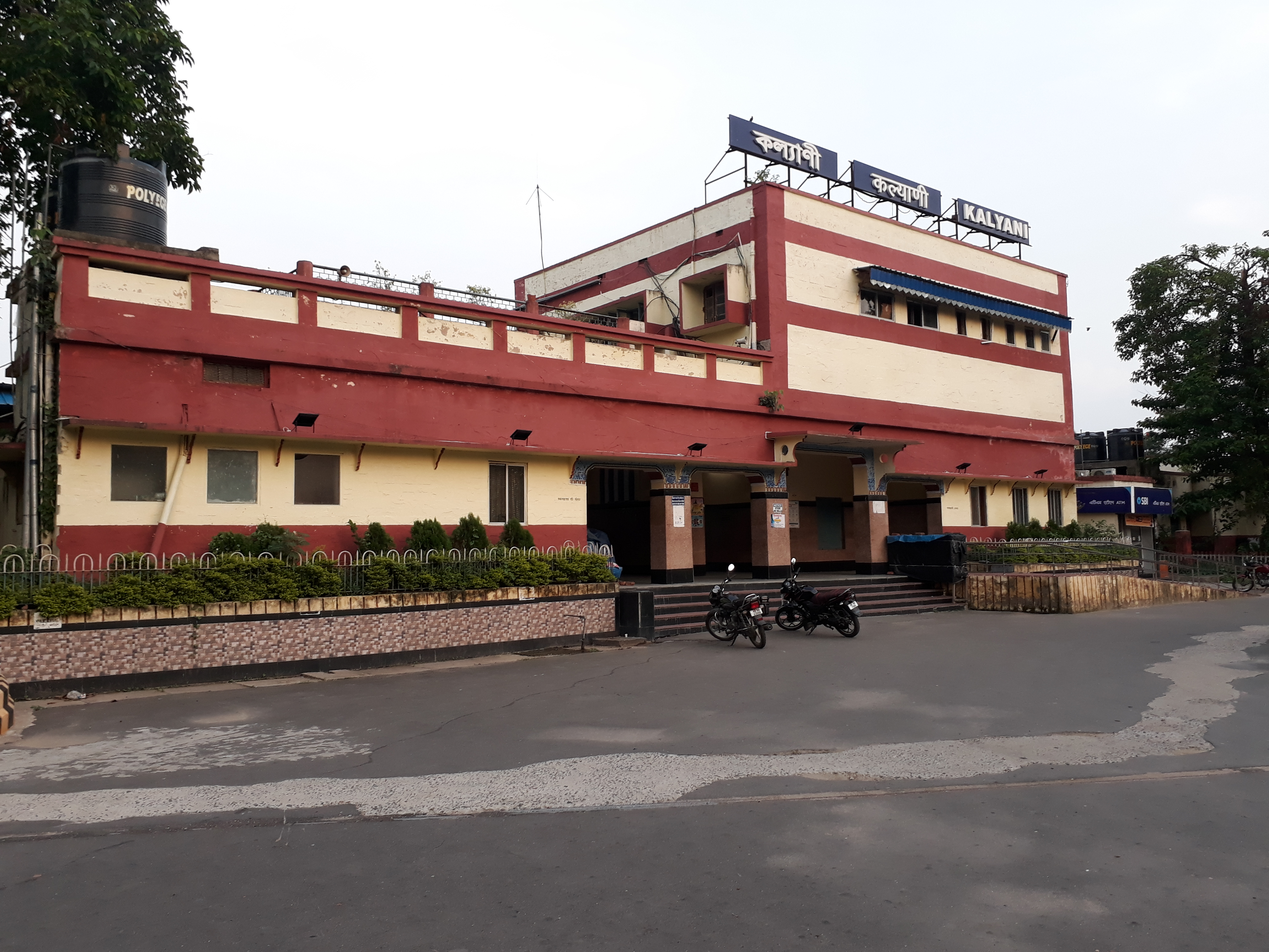 Kalyani railway station main and branch, Kalyani Nadia, West Bengal